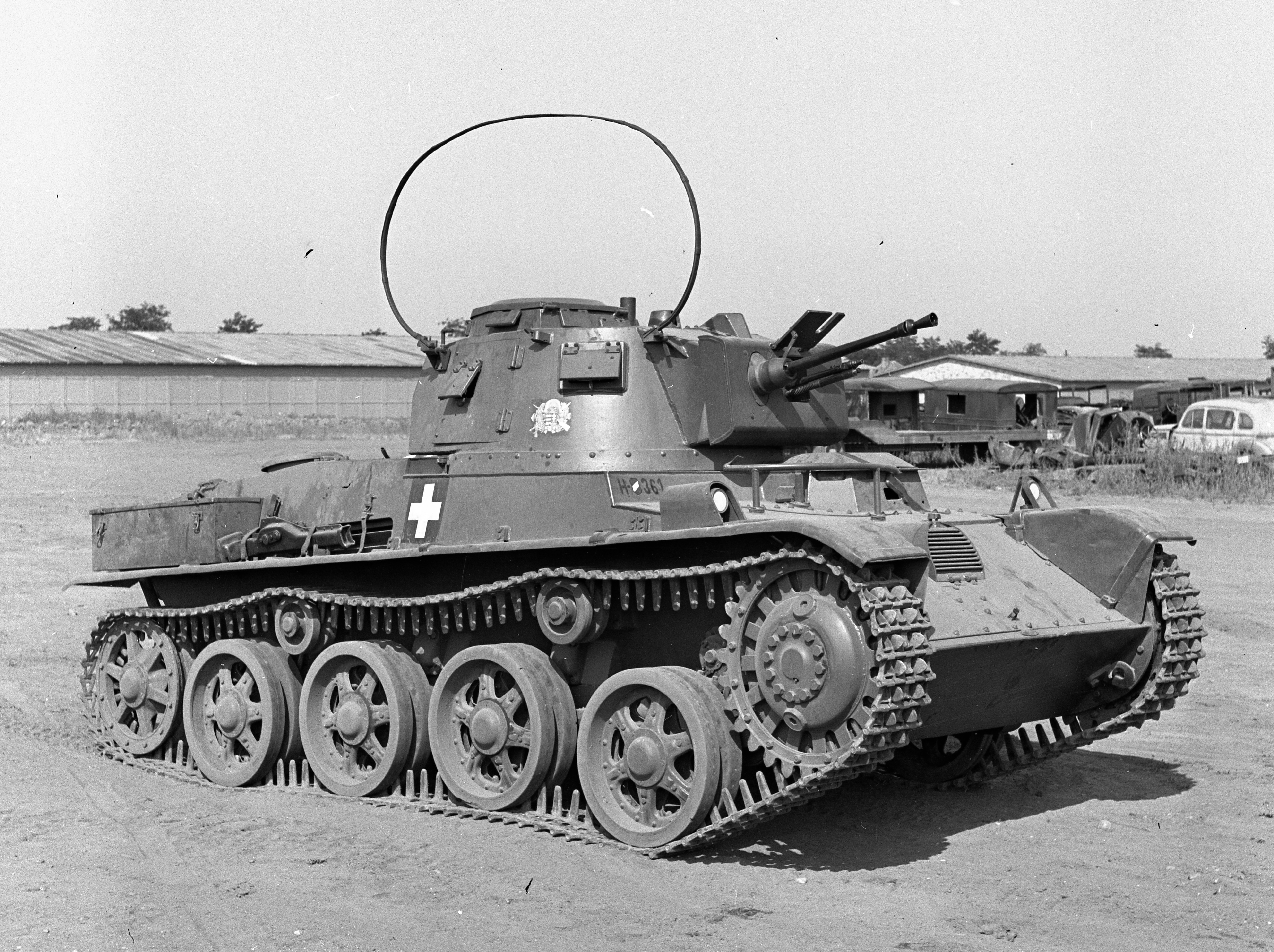 Azonosítatlan magyar harckocsibázis?? Tags: insignia, number plate, tank, General Military Vehicle Emblem, track, aerial, automobile, Hungarian brand, military